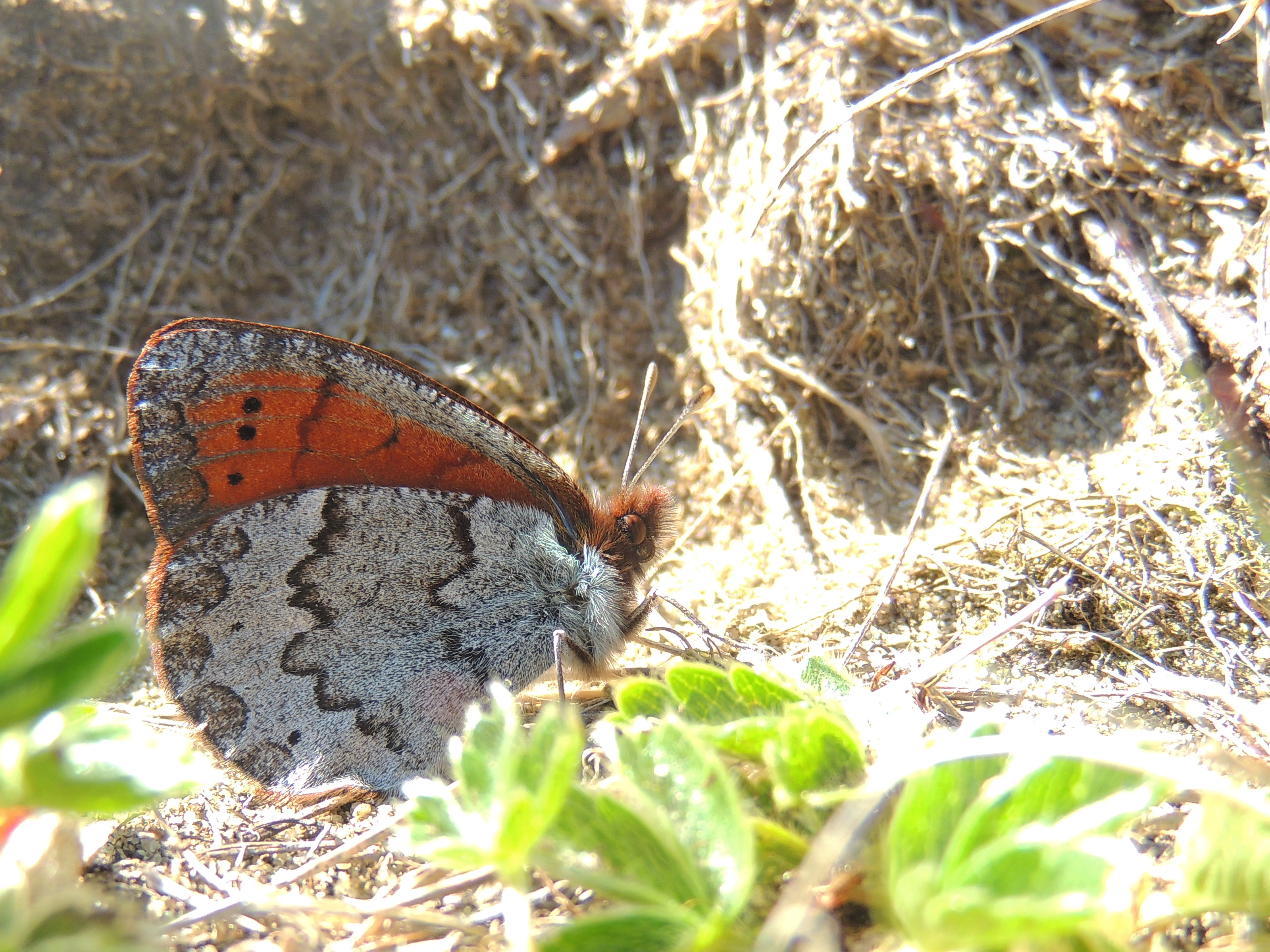 Dewy Ringlet (Erebia pandrose), picture taken in the Bucegi Mountains at Coștila Peak, Romania